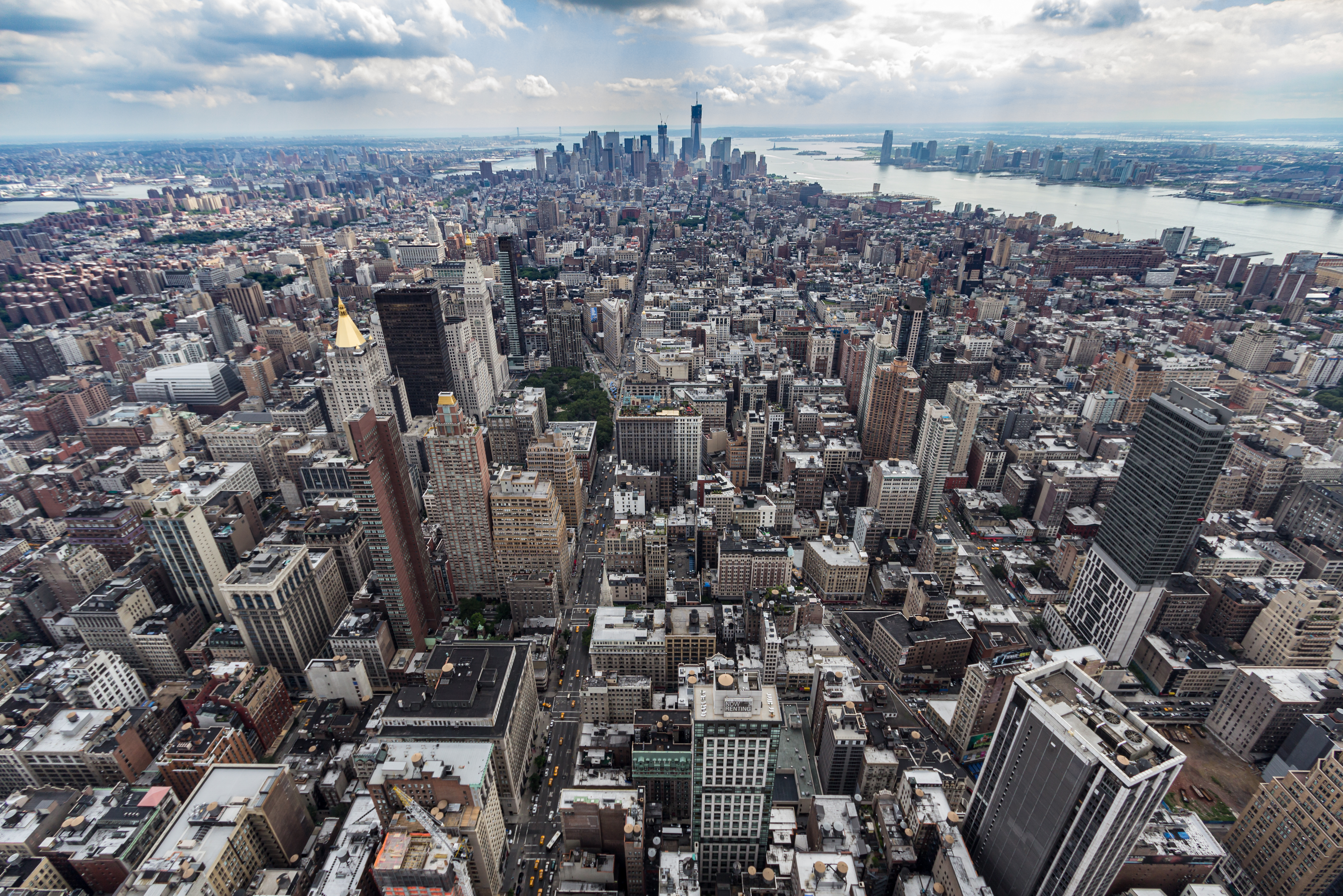 Lower Manhattan, New York City (New York, USA)